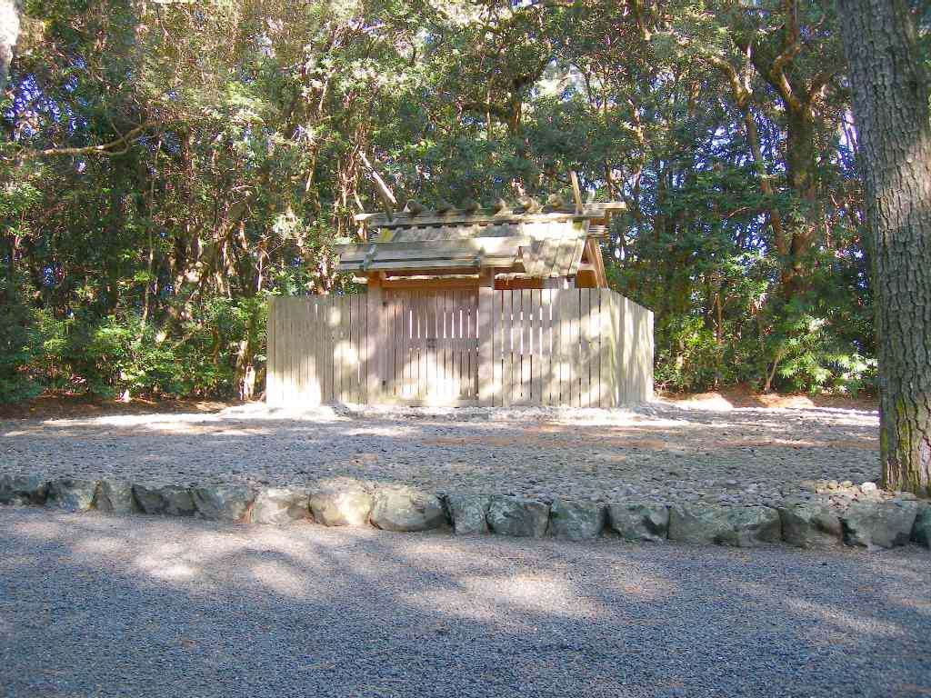 Mishioden-jinja is the salt supplier for Jingu, Futami-cho, Ise city Mie prefecture, Japan.